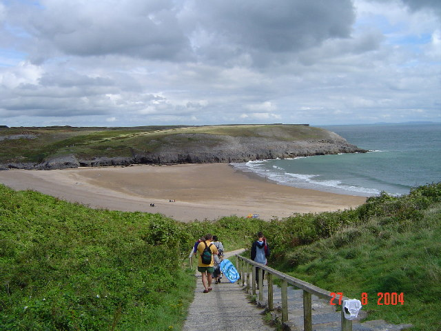 Broad Haven beach. Looking NE from the car park walk down to the beach.